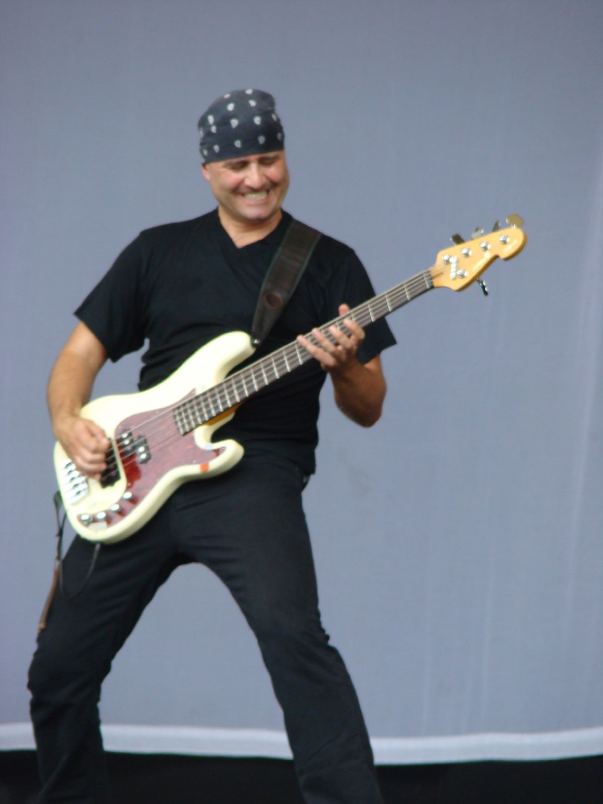 Oliver Hotzwarth, bass guitarist of German Heavy metal band Blind Guardian